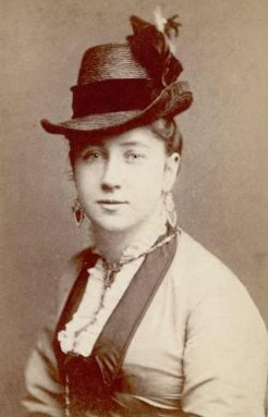 Maggie Moore, photographed in the 1870s.